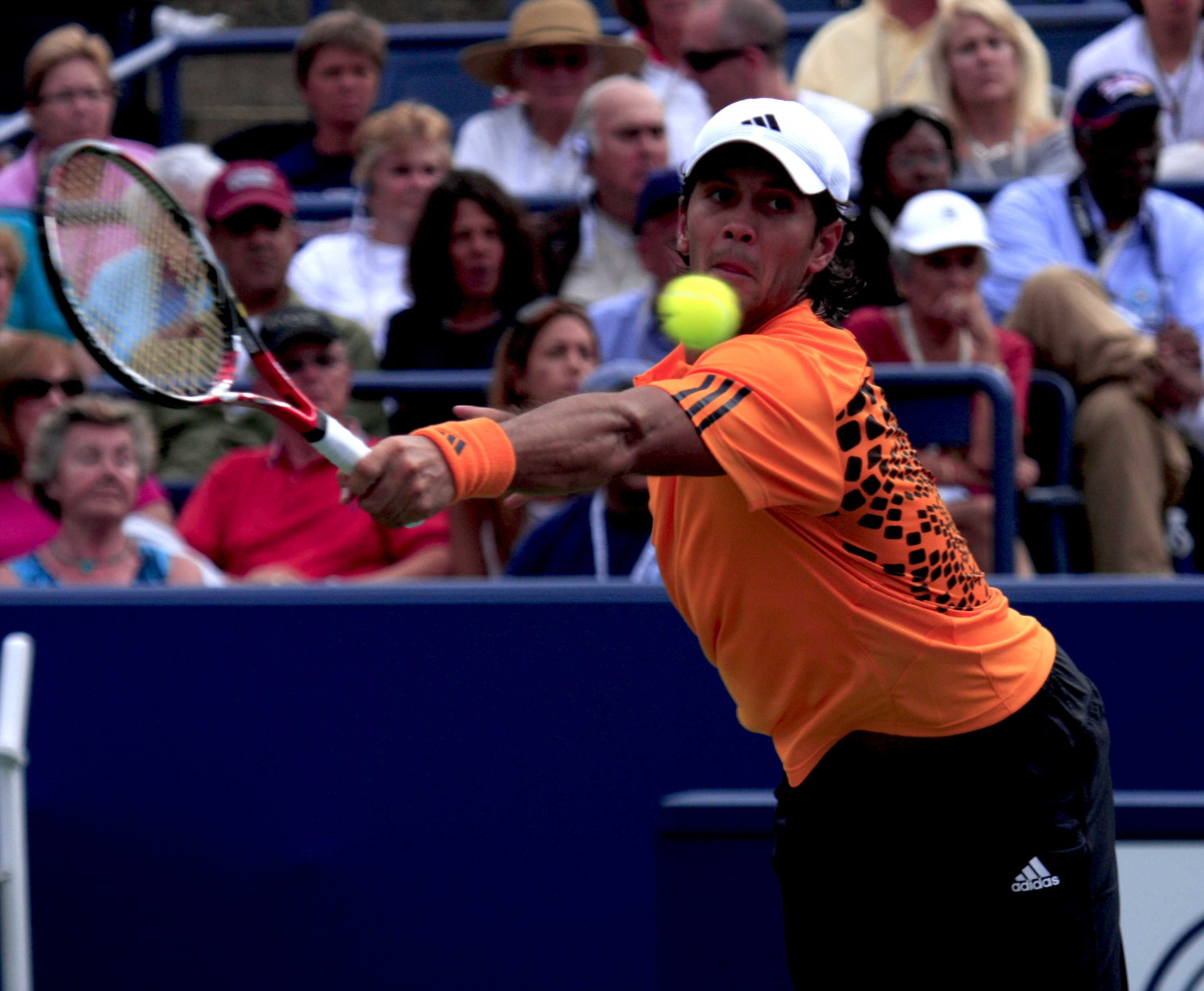 Fernando Verdasco volleys in winning match against John Isner at 2009 US Open